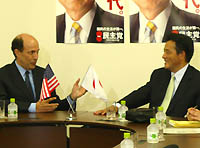 John Roos, Ambassador to Japan, talked with Katsuya Okada, Member of the House of Representatives, at the Headquarters of Democratic Party of Japan in Chiyoda Ward, Tōkyō Metropolis, on September 11, 2009.